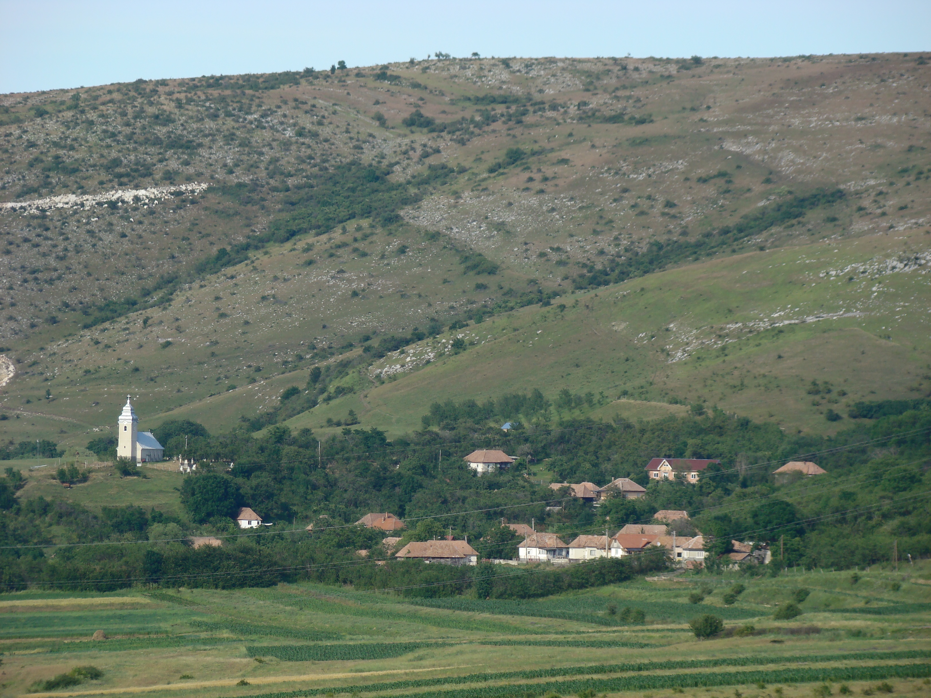 Petreștii de Sus, Cluj county, Romania